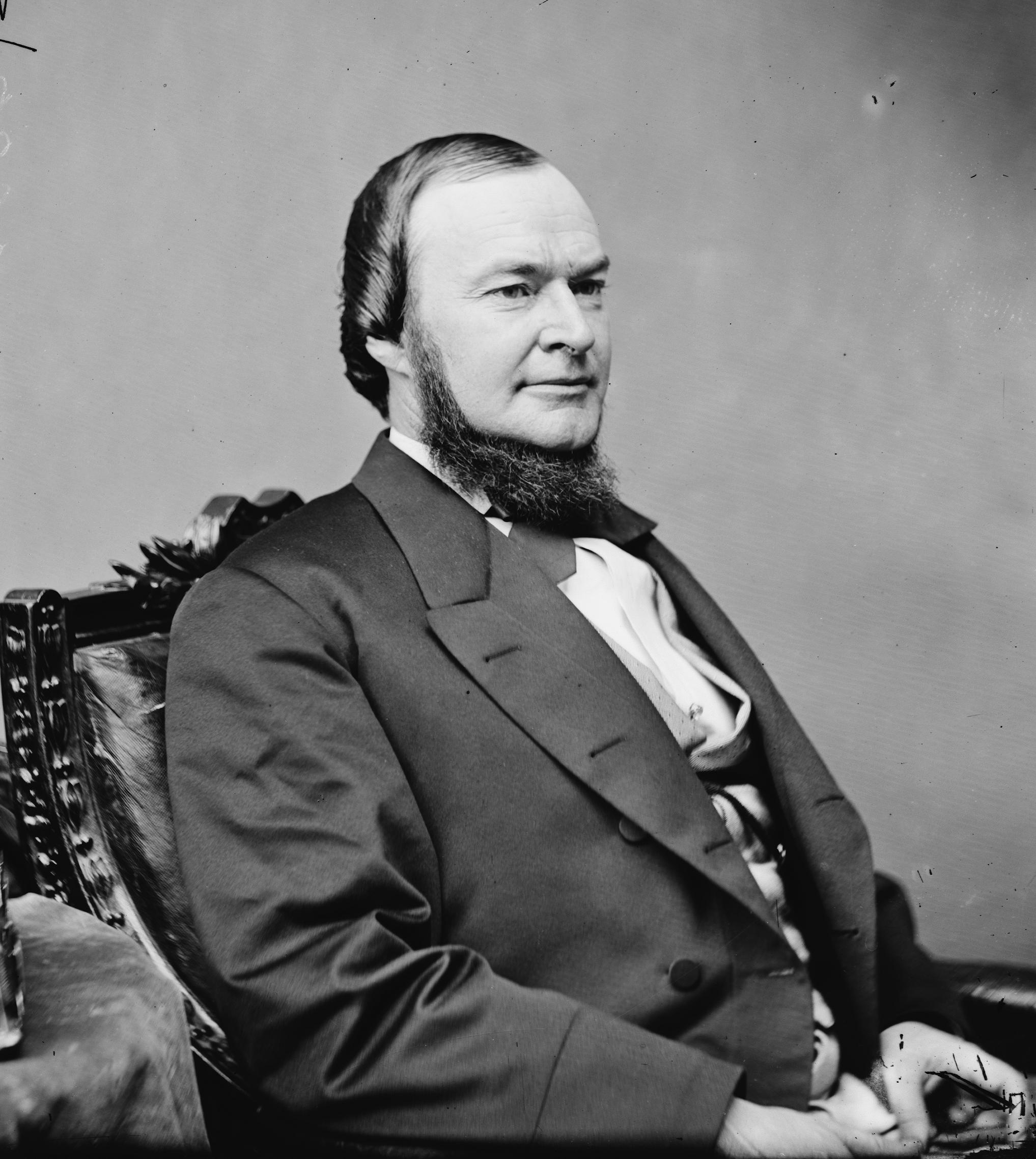 Richard Jacobs Haldeman. Library of Congress description: "Haldeman, Hon., Richard J., of PA. Delegate to Democratic National Convention at Charleston, S.C. and Baltimore, 1860"